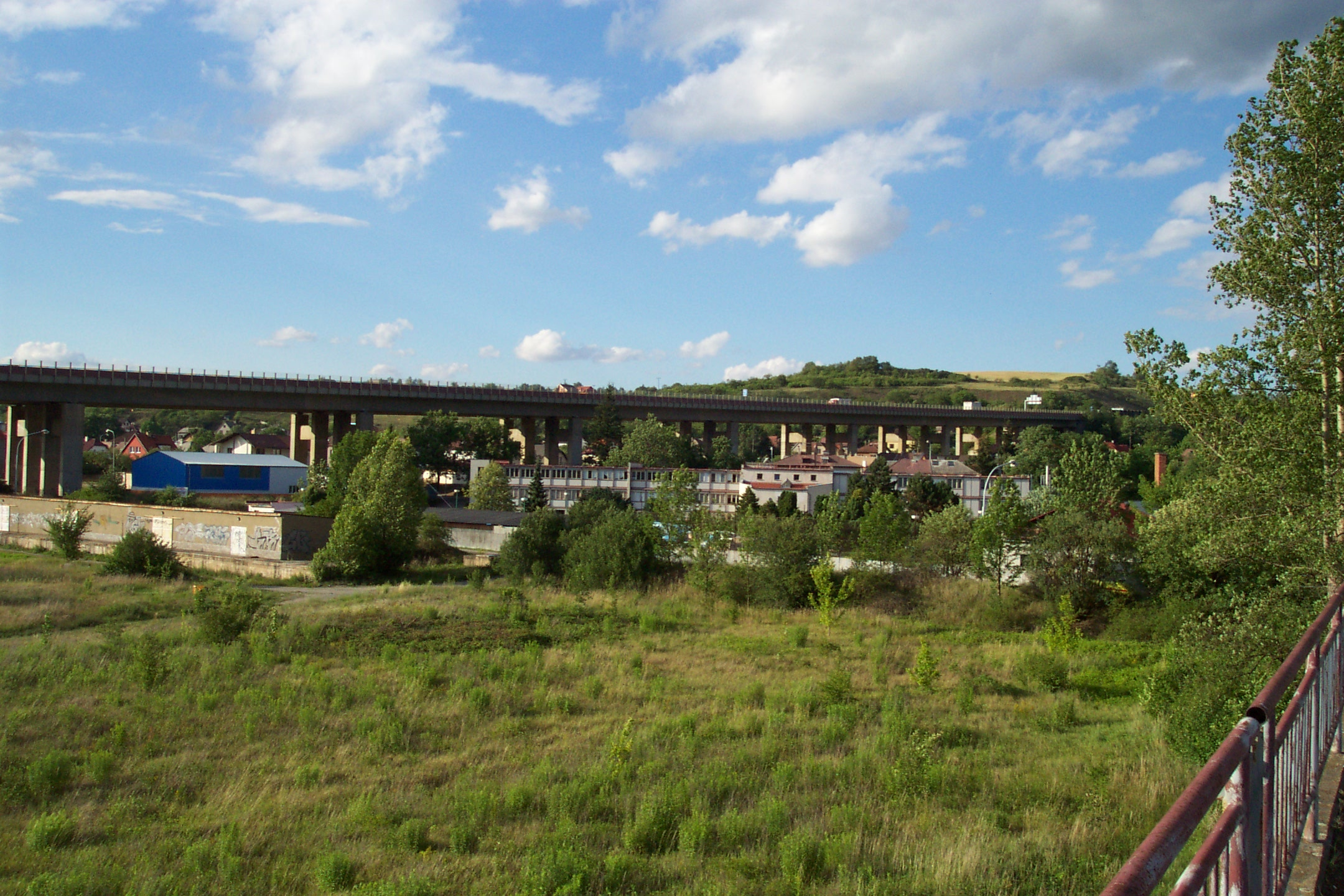 Higway bridge in Beroun over Berounka river